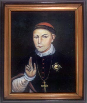 A portrait of Archbishop Felipe Fernandez de Pardo (1611 - 1689). Felipe Fernandez de Pardo was Archbishop of Manila from 1680 untill his death in 1689.